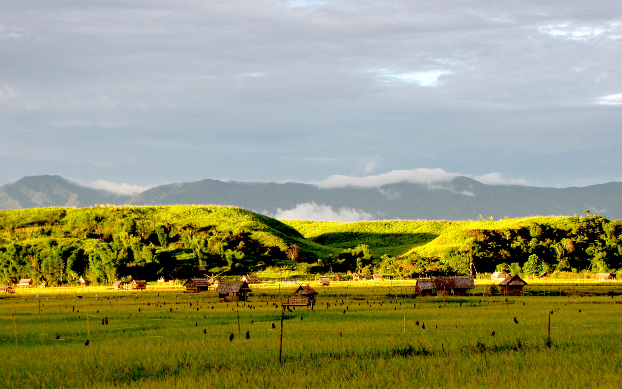 Horizon in the heart of Sulawesi, Eno village, Seko